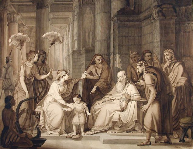 Moses Trampling on Pharaoh's Crown, as in Josephus' Antiquities 2:232-36, by Enrico Tempestini, pen and brown ink, black chalk; brown, grey and pink washes; 390 x 503 mm, dated 1846